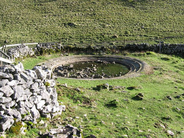 Dew pond in Biggin Dale This dew pond can be found at a junction in the footpath through Biggin Dale. Looking towards the footpath that continues to Dale Head from the footpath that leads to Dale End.